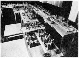 The first prototype FM (frequency modulation) transmitter, invented and built by Edwin Armstrong at the Empire State Building. Licensed as experimental station W2XDG, beginning June 2, 1934 Armstrong used it for a series of extensive secret tests of his new frequency modulation broadcasting system which he had been developing since 1928. The tests were successful, and in summer 1935 he announced his new system. The device transmitted on 41 MHz with an output power of 50 W, later increased to 2 kilowatts. It consisted of a low frequency crystal oscillator which was phase modulated by a balanced modulator, then was multiplied by a number of frequency doubler stages to the output frequency, which was applied to an ordinary transmitter RF amplifier. It had a frequency deviation of about 75 kHz. The 2 kW FM transmitter produced much better reception at a distance of 75 miles than a 50 kW AM transmitter broadcasting the same material. Information from Kruse, Robert S., "The Armstrong System of Modulation" in Radio magazine, No. 204, January 1936, p. 62-67. It took a number of years for FM broadcasting to catch on with listeners, but by 1970 most music broadcasting migrated to FM due to its superior audio quality.